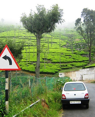 Kotagiri, Ooty, India.